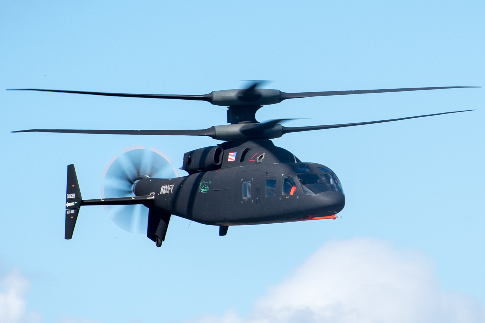 Secretary of the Army, Hon. Ryan D. McCarthy, attends a Boeing-Sikorsky flight demo of the SB-1 Defiant, the SARA, and the S-97 Raider at the William P. Gwinn airport in West Palm Beach, F.L., Feb. 20, 2020. (U.S. Army photo by Sgt. Dana Clarke)